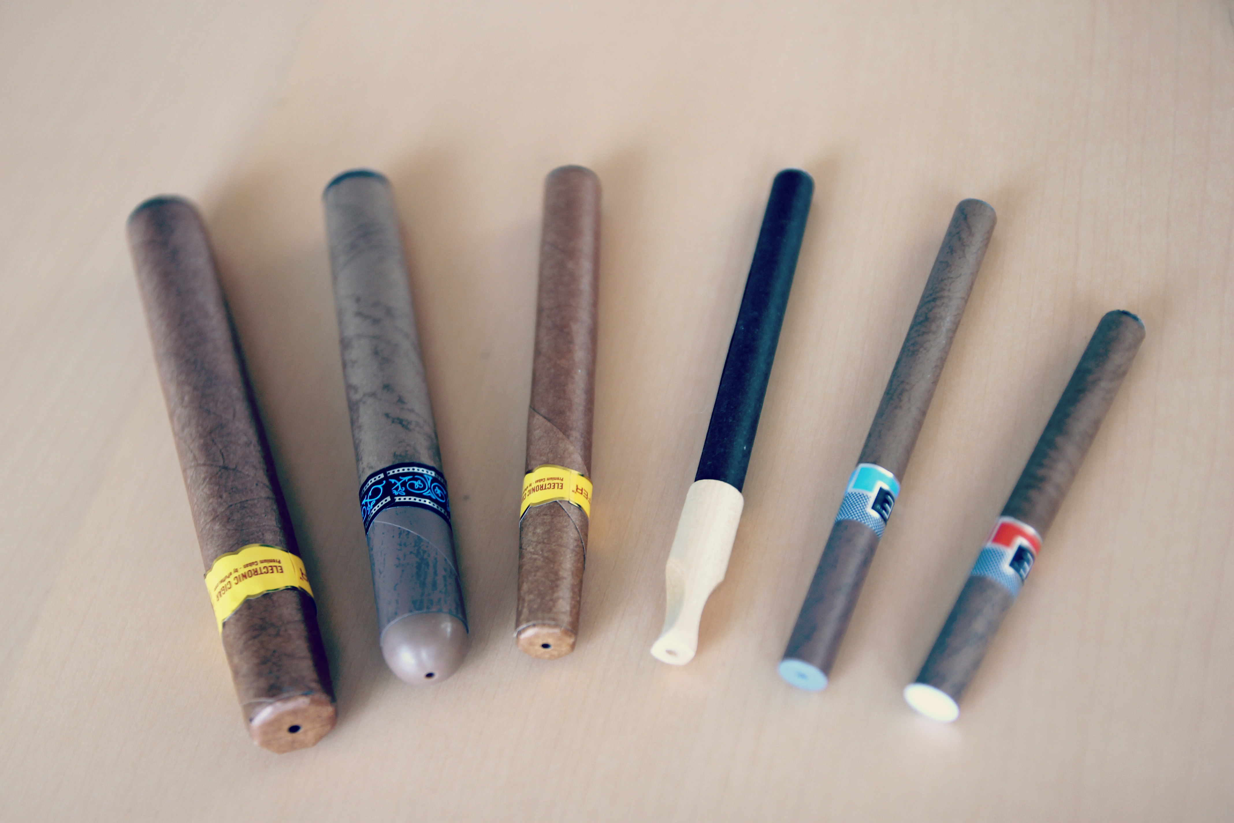 Three E-Cigars alongside an E-Clove, E-Cigarillo and an E-Black (Wooden Tip).